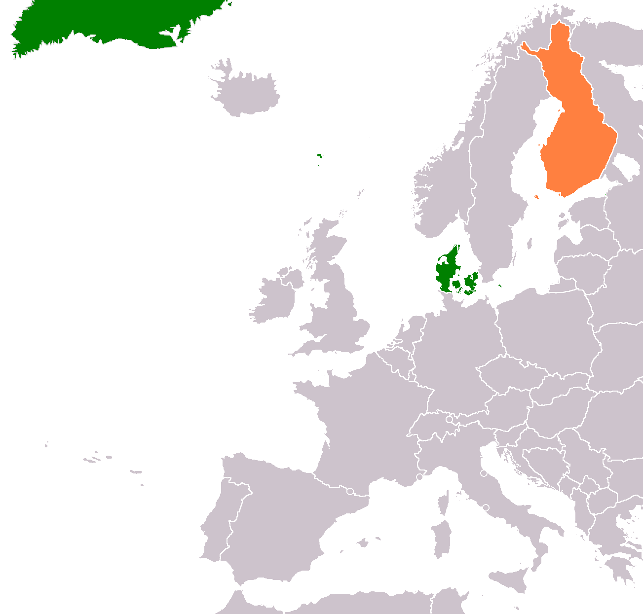 Denmark Finland Locator